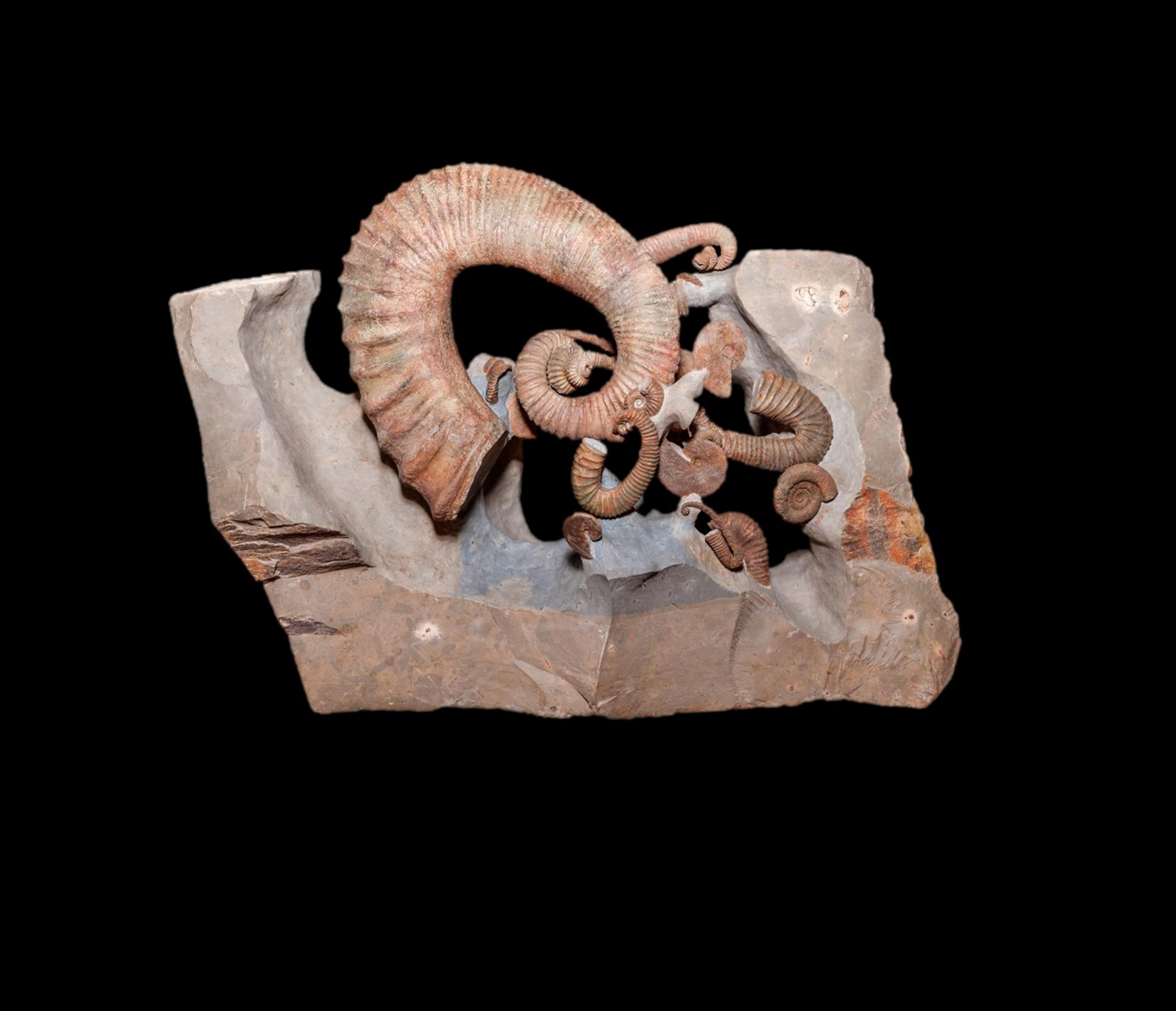 This ammonite ‘fossil cemetery’ provides a good representation of the rare Barremian heteromorph ammonites from the south east of France and contains a large variety of Heteroceras heteromorphs preserved in extremely hard matrix, unusual for this locality, and turned slightly blue due to oxidation. Species include Heteroceras leenhardthi, H. morienze, H. avrami, H. gonneti , H. elegans, Macroscaphites recticostatus and Barremites difficilis. Size of matrix 400 x 450 mm. This image was featured in the book HETEROMORPH: The rarest fossil ammonites by Wolfgang Grulke published in 2014.